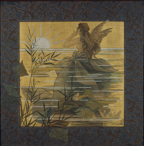 Composition with winged nymph at sunrise